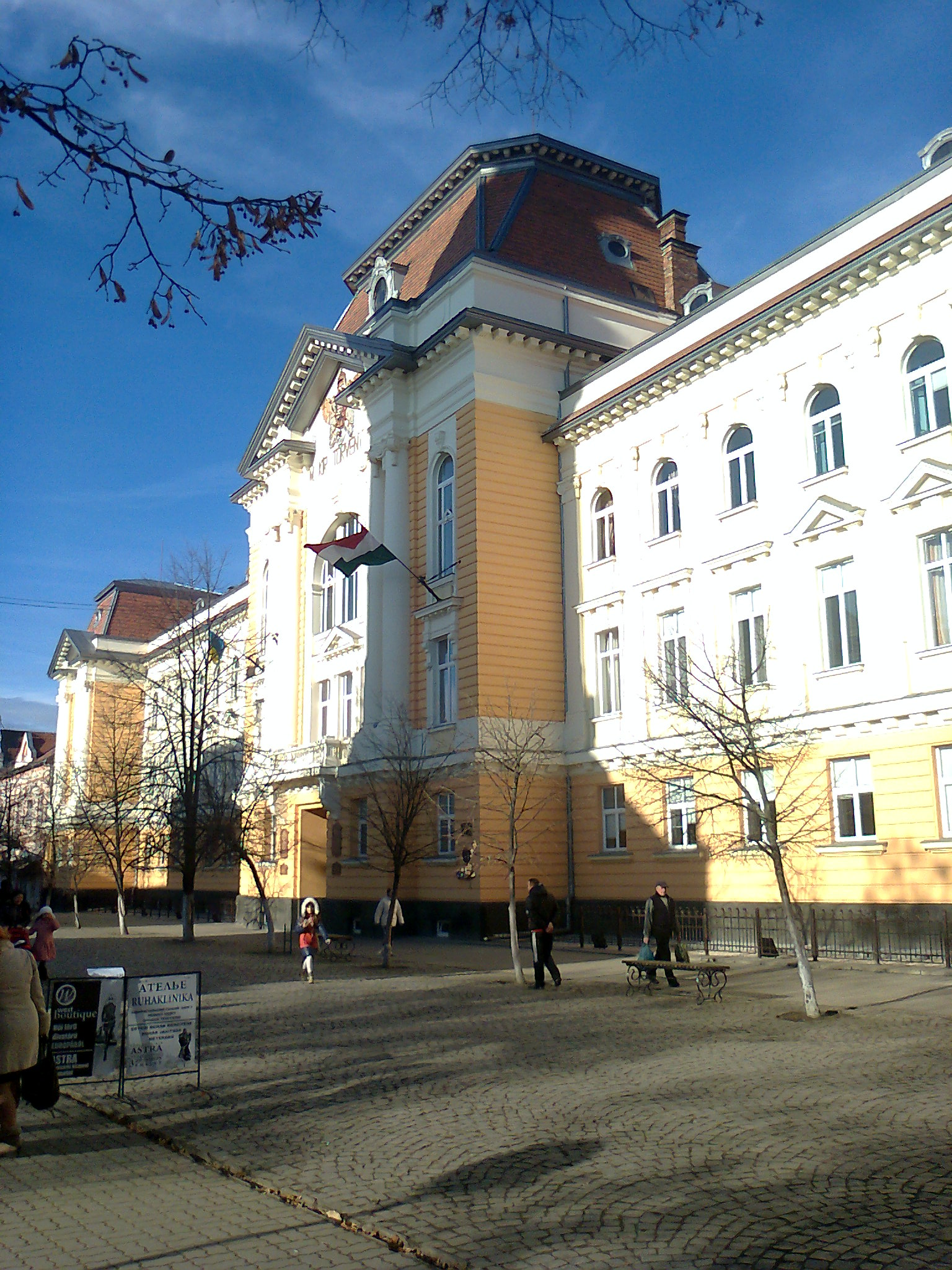 Rákóczi Ferenc College in Beregszász (Beregovo), Ucraine